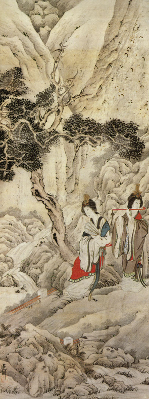 2 chinese ladies by a stream;genre in Japanese painting 渓辺二美人図